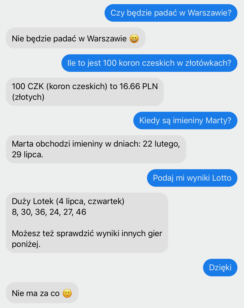 Example of usage of Infobot